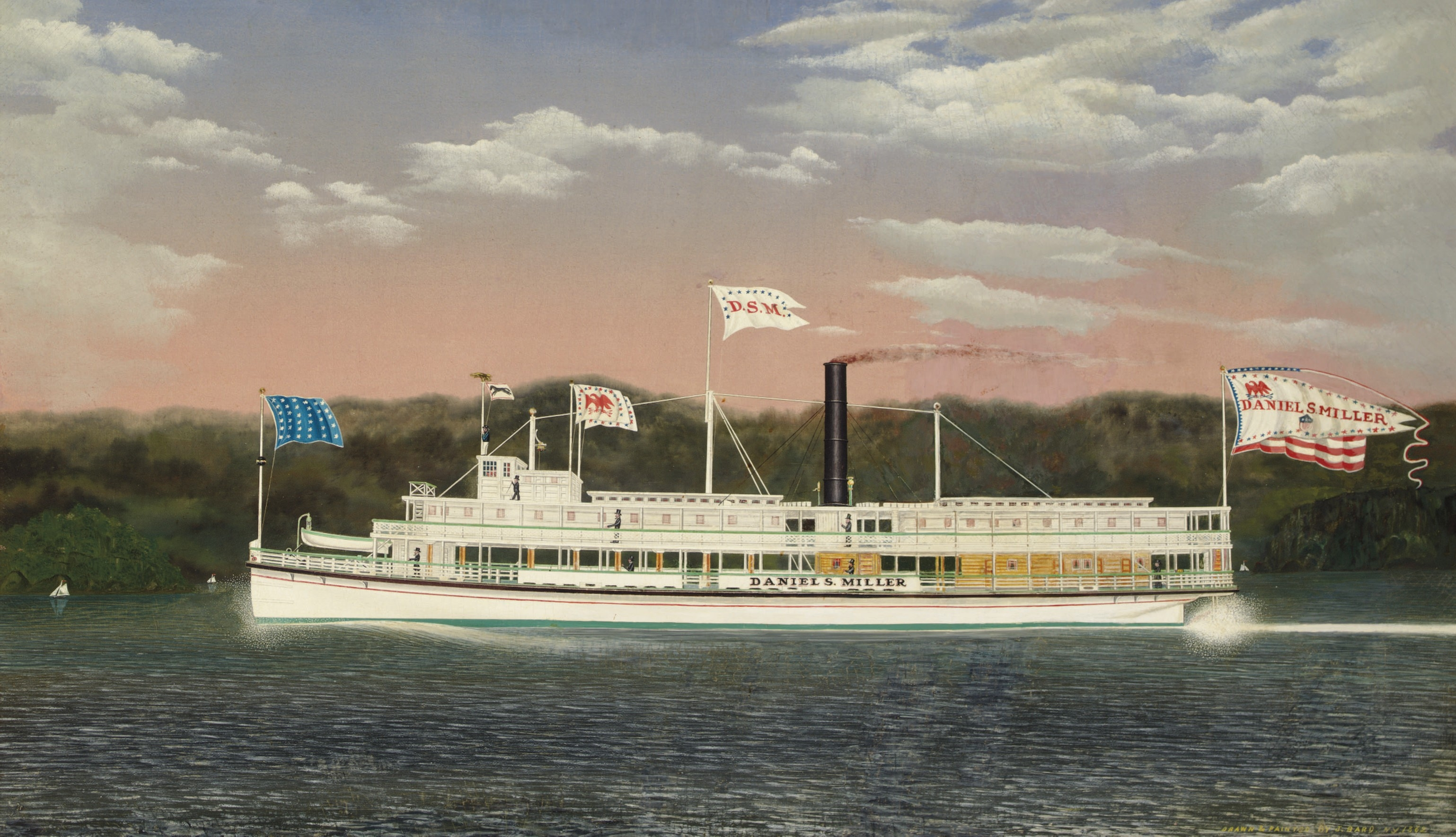 The Steamboat „Daniel S. Miller“